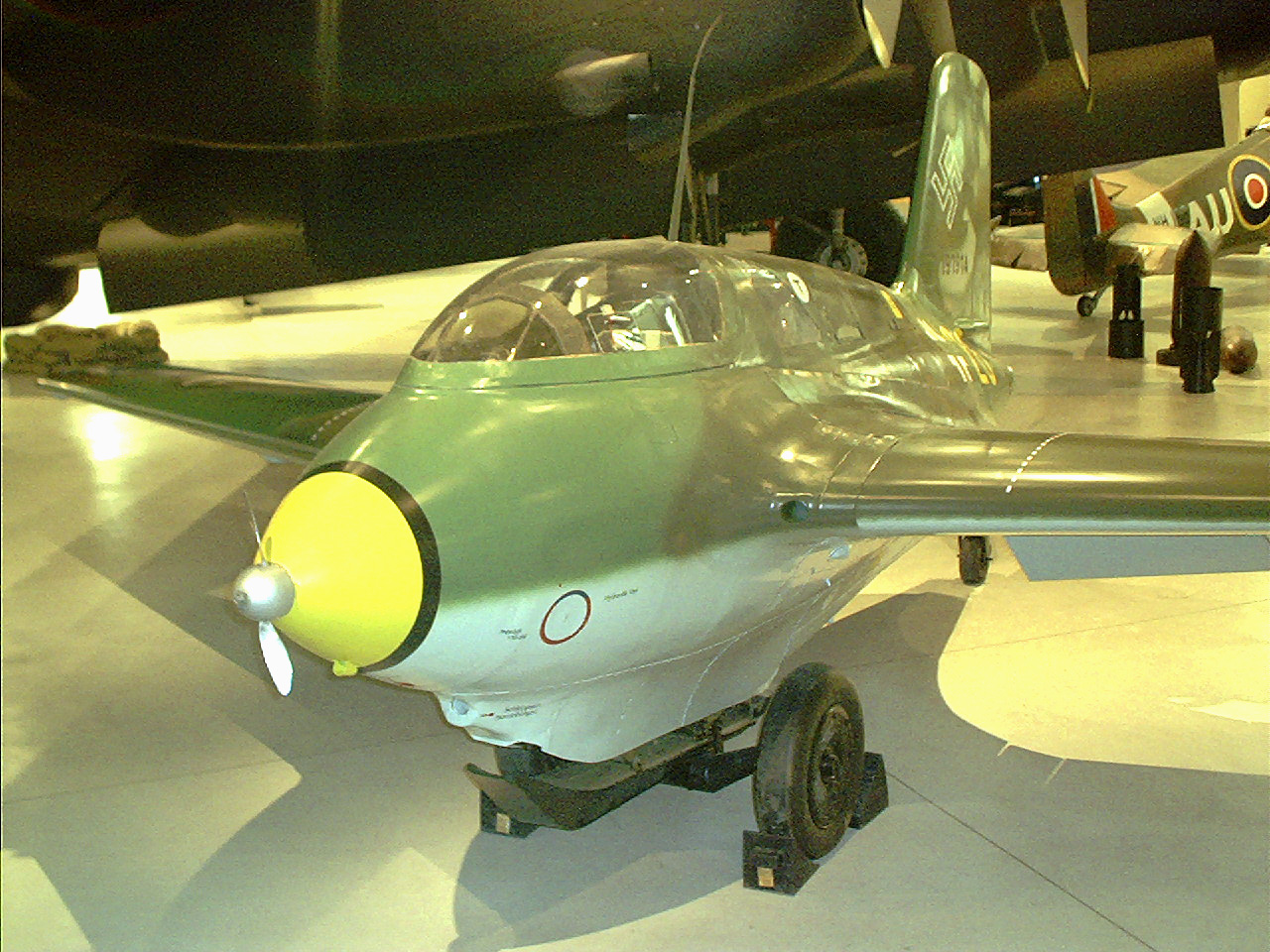 Me 163 Komert at Canada Aviation Museum